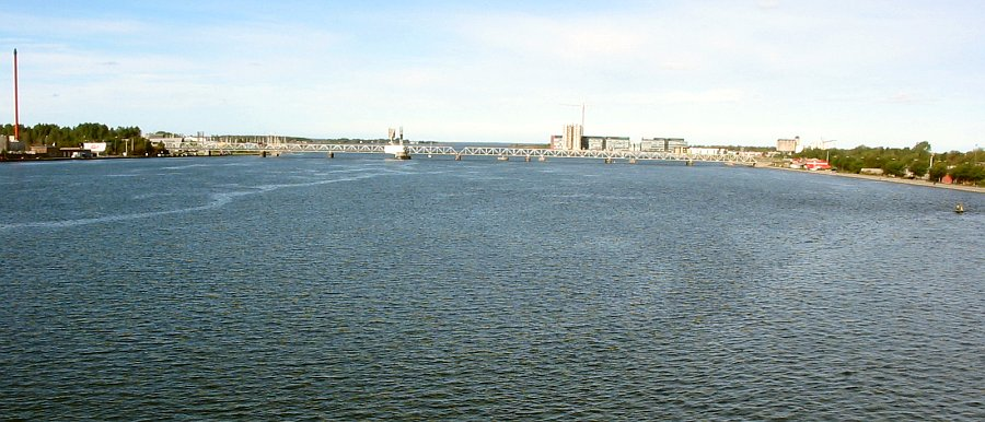 Railway bridge over the Limfjord